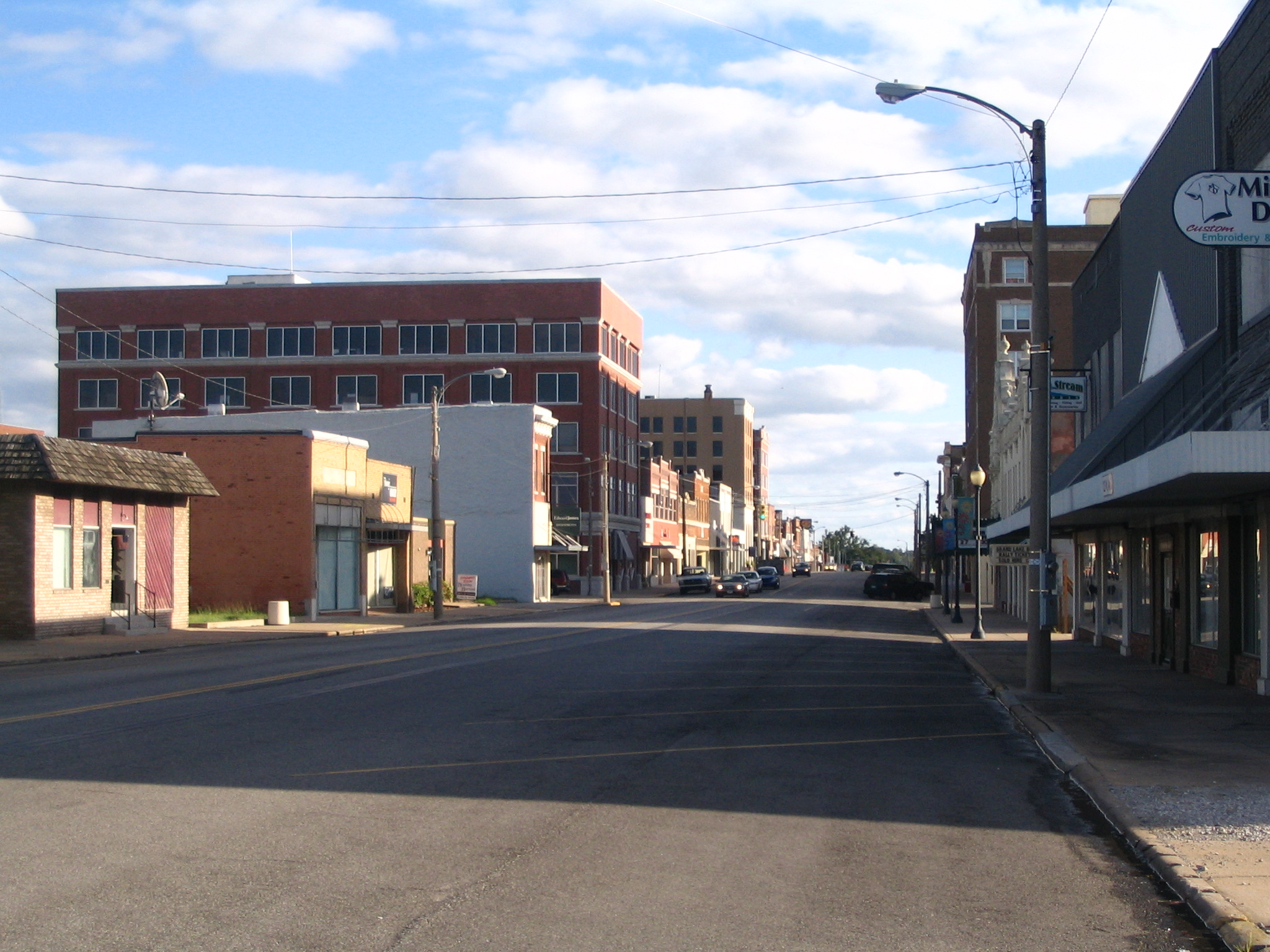 Downtown Miami, OK street